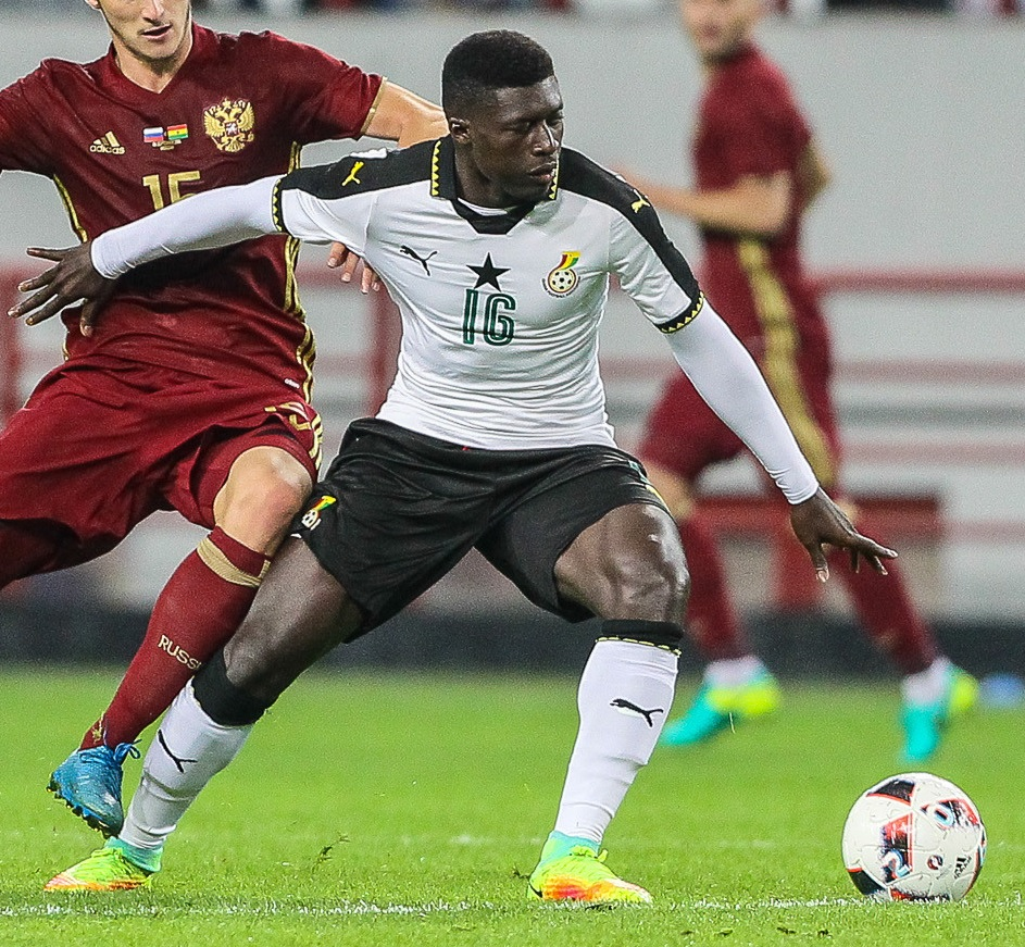 Alfred Duncan playing for Ghana national football team against Russia.